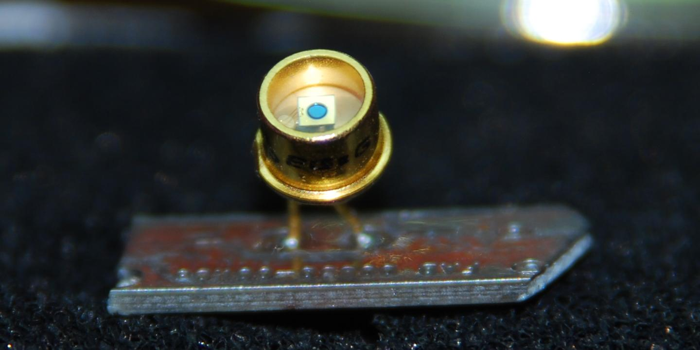 Avalanche photodiode.